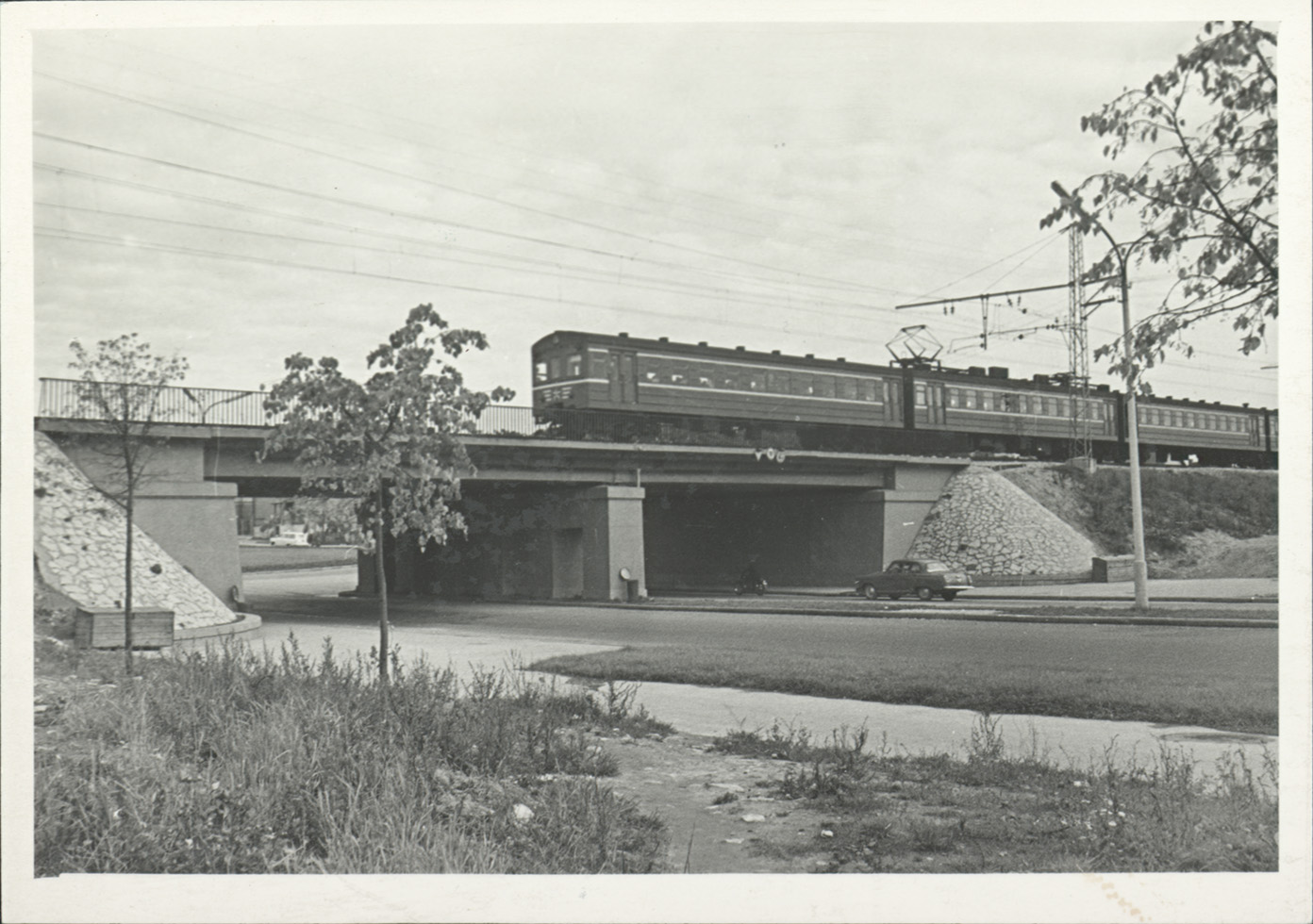 Endla street overpass